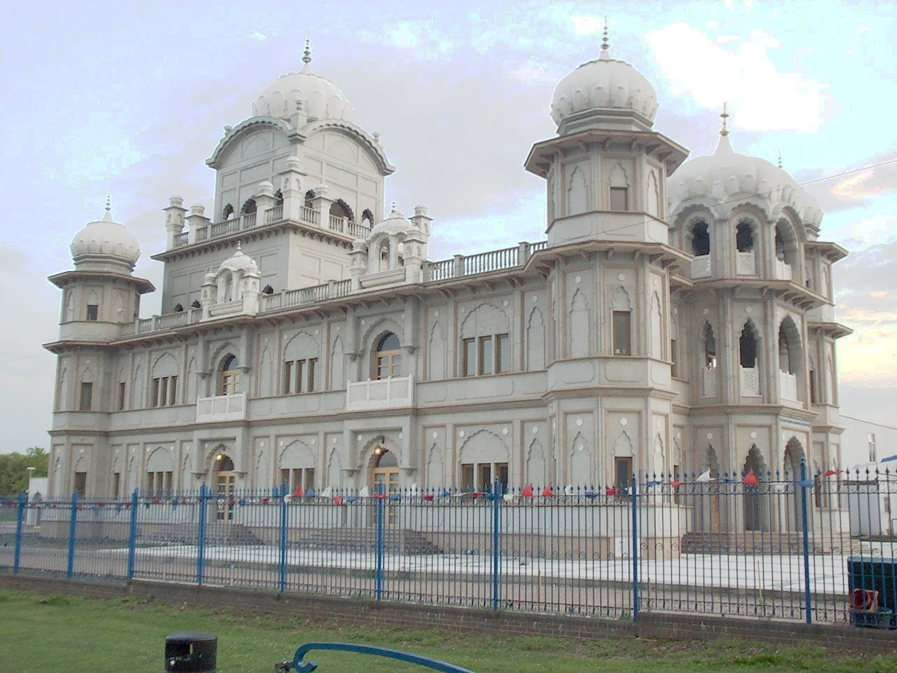 Sikh temple on Ford End Road, Queens Park, Bedford, Bedfordshire. Picture taken in the evening and lighting adjusted with the Gimp so you can see everything, which is why the lighting is a bit strange.